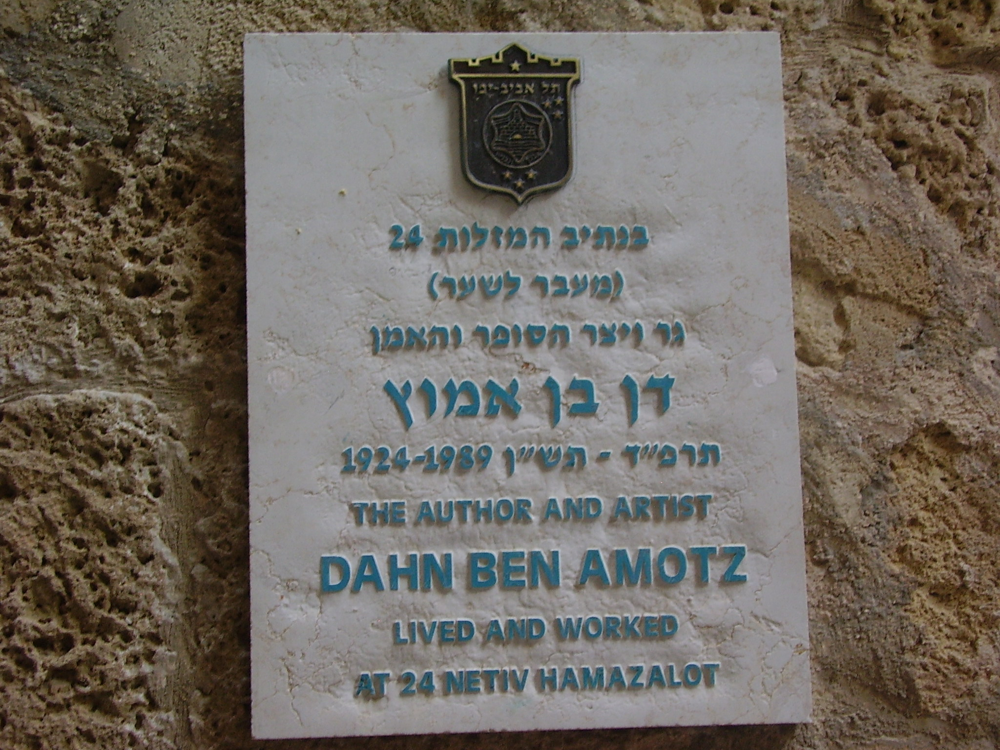 memorial plate on the house of the writer dan ben amotz in jaffa